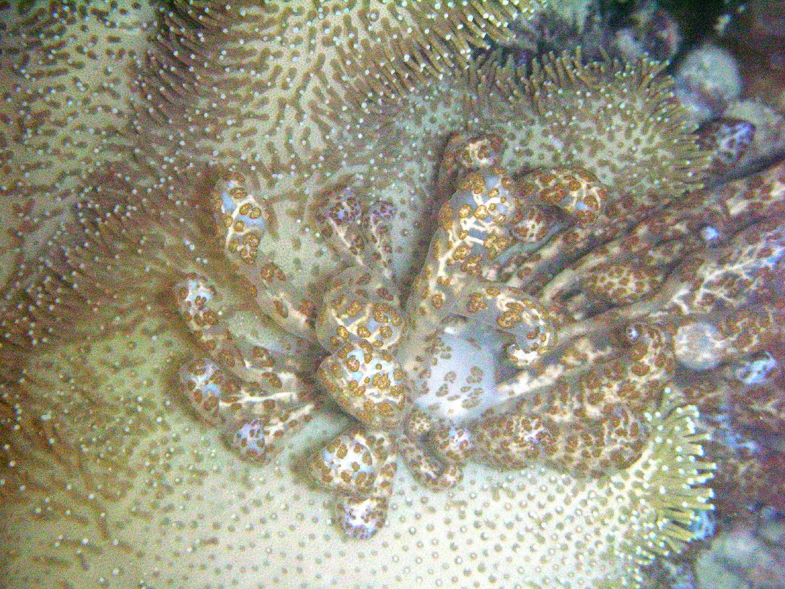 Phyllodesmium longicirrum, synonym: Phyllodesmium longicirra crawling on its prey the soft coral Sarcophyton trocheliophorum